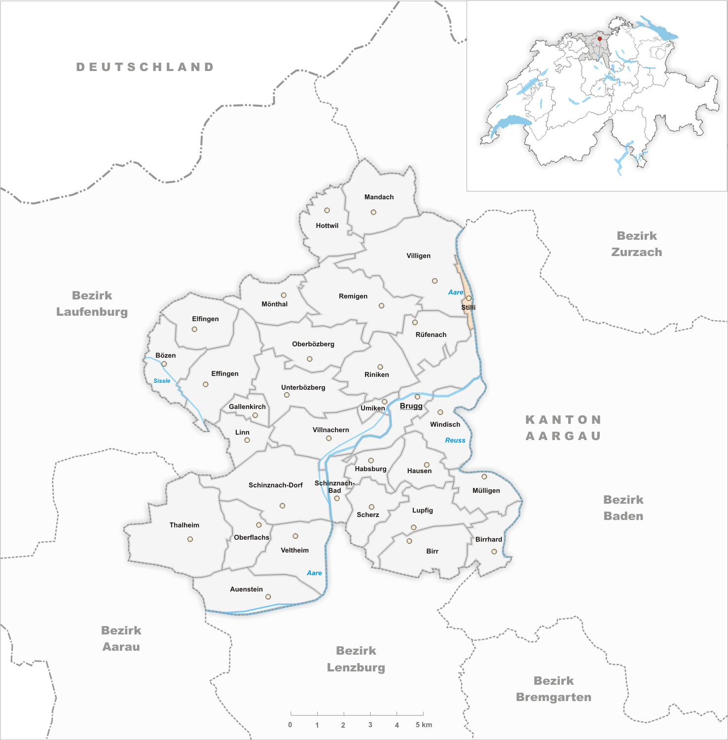 Municipality Stilli